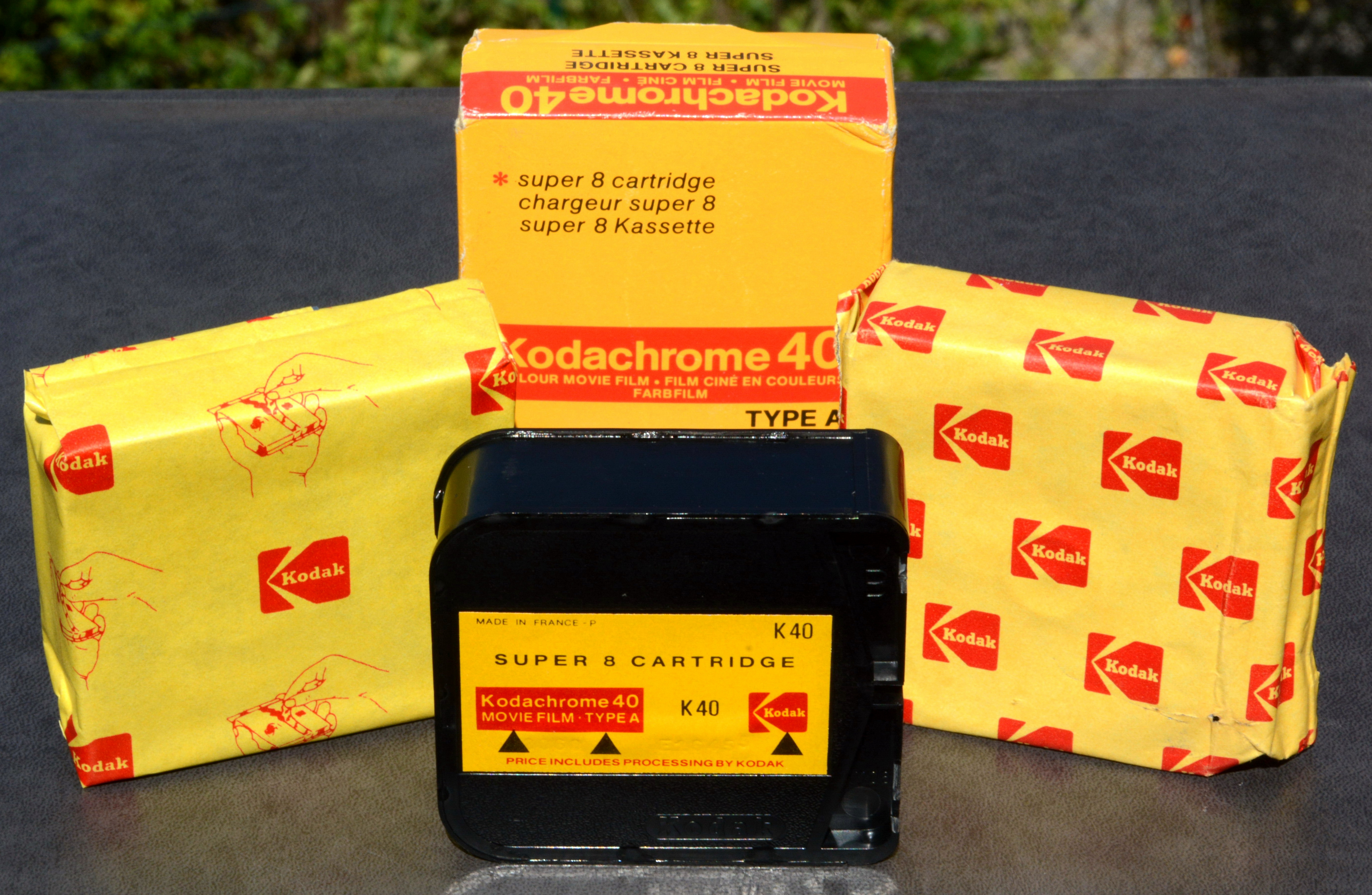 Kodak Kodachrome 40, Type A, set - Super 8 film, cartridge, original box